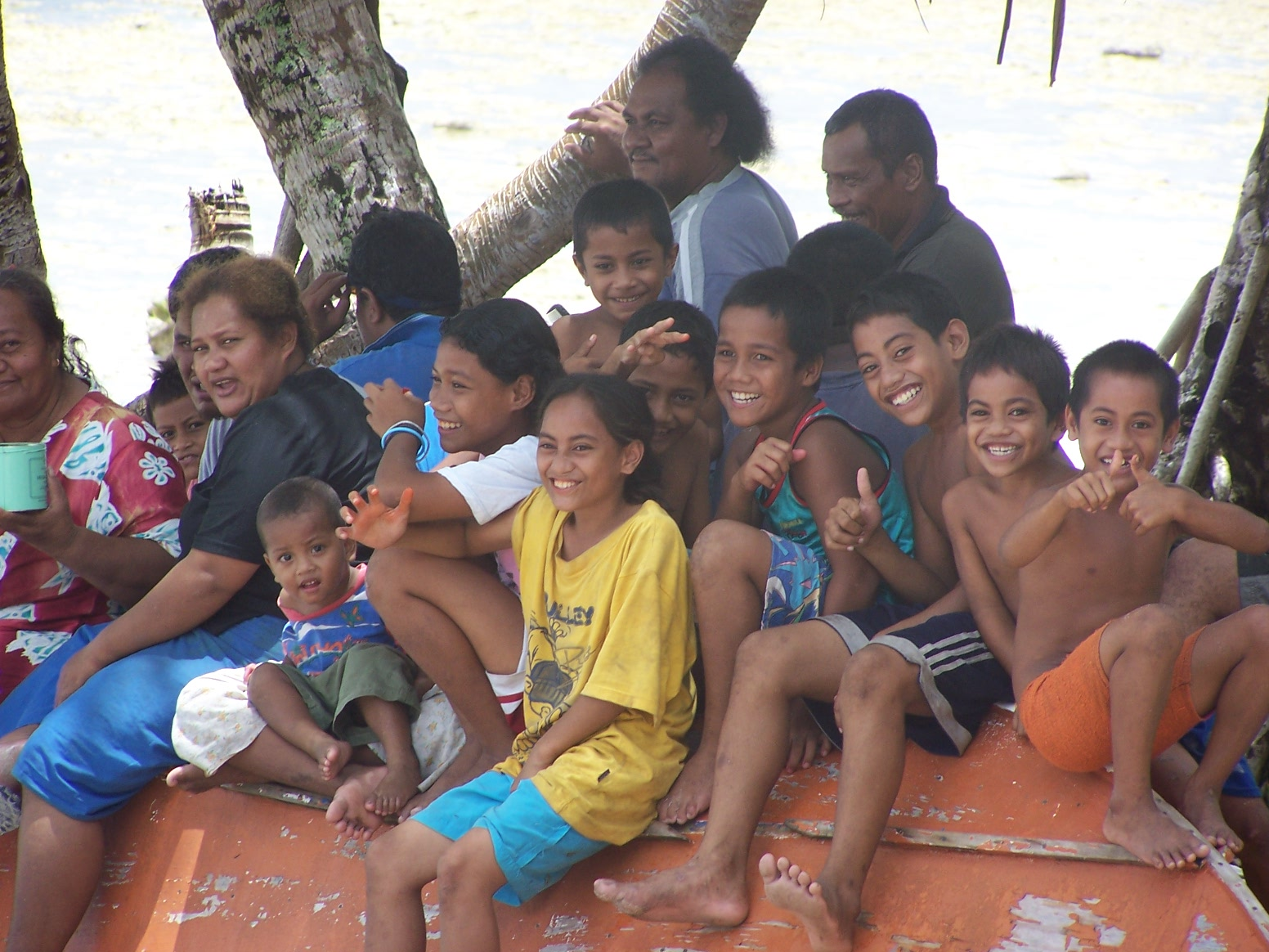 Photo taken on Niutao Island on the day when the inter-island ferry arrived. The villagers turn out to help off-load cargo.